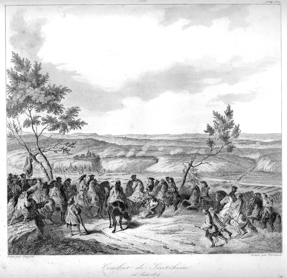 The battle of Sinsheim, 1674. Original steel engraving about 1840.